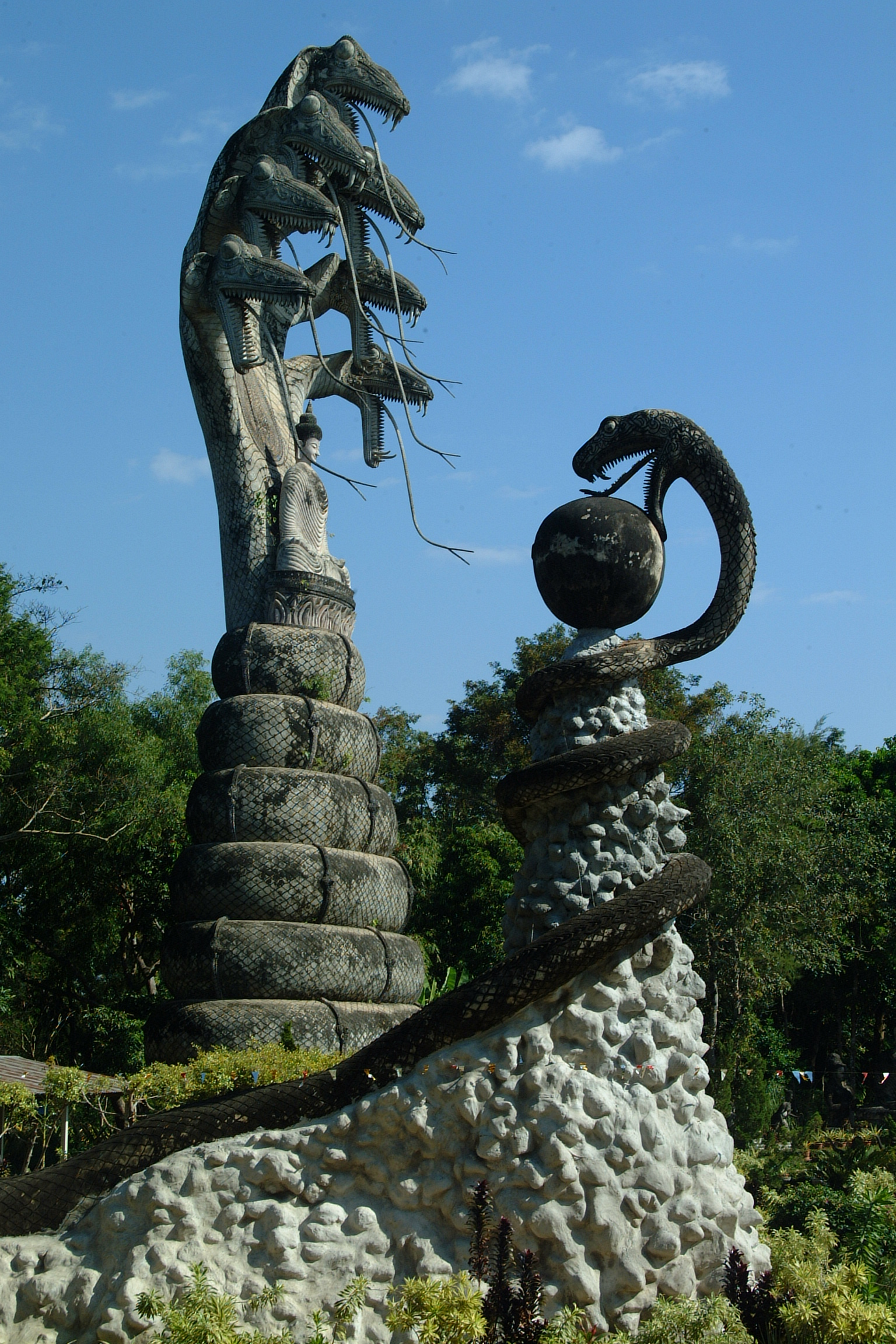 Buddhas near the Thailand - Laos border